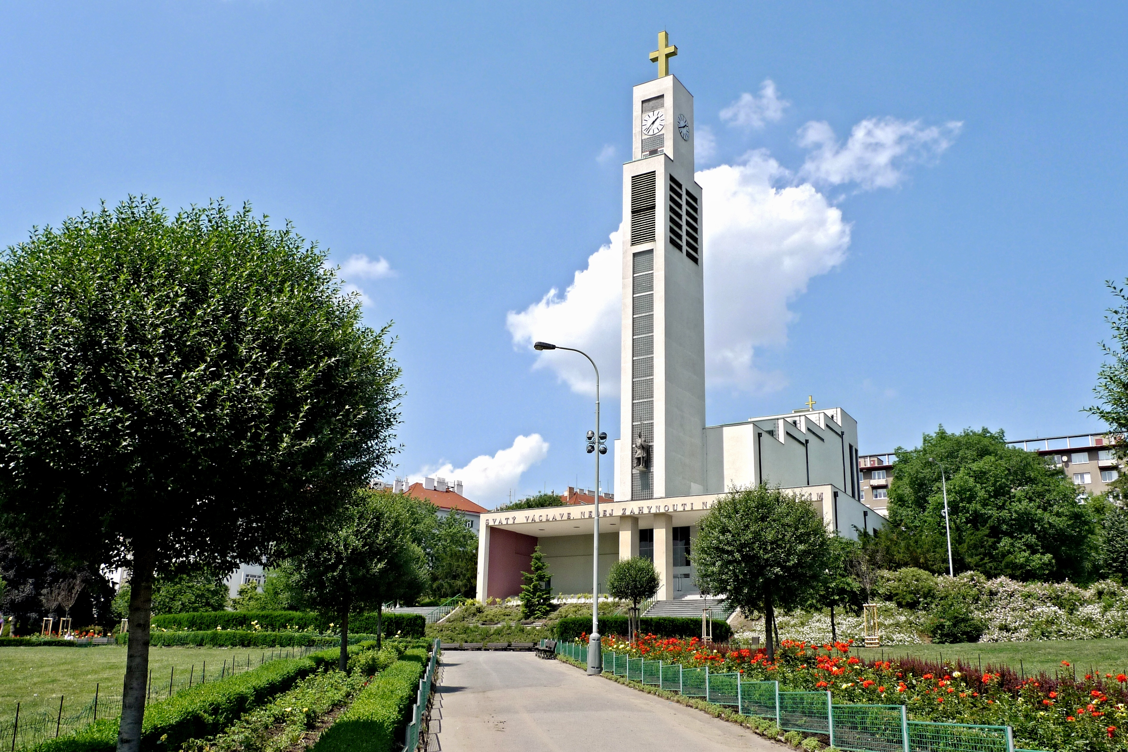 Church of Saint Wenceslaus (Vršovice, Prague 10, Czech Republic)